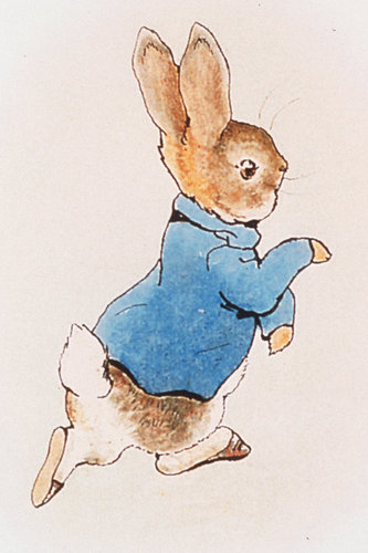 Cover image of 1902 Tale of Peter Rabbit